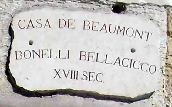 Desciption: Plate of Hypogeum De Beaumont Bonelli Bellacicco at Taranto, Italy Photographer: --Asia Date: 28.2.2006